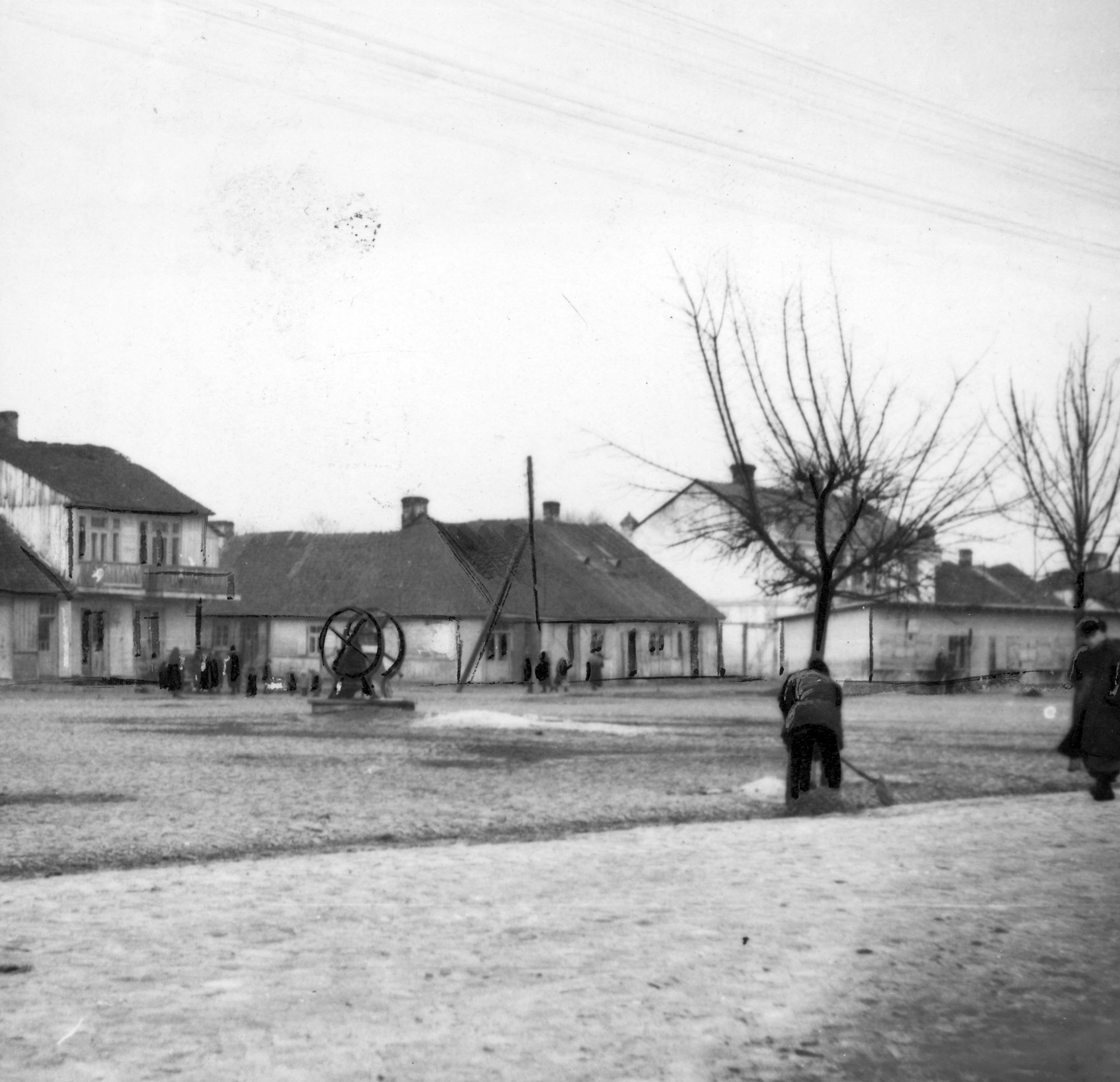 See title